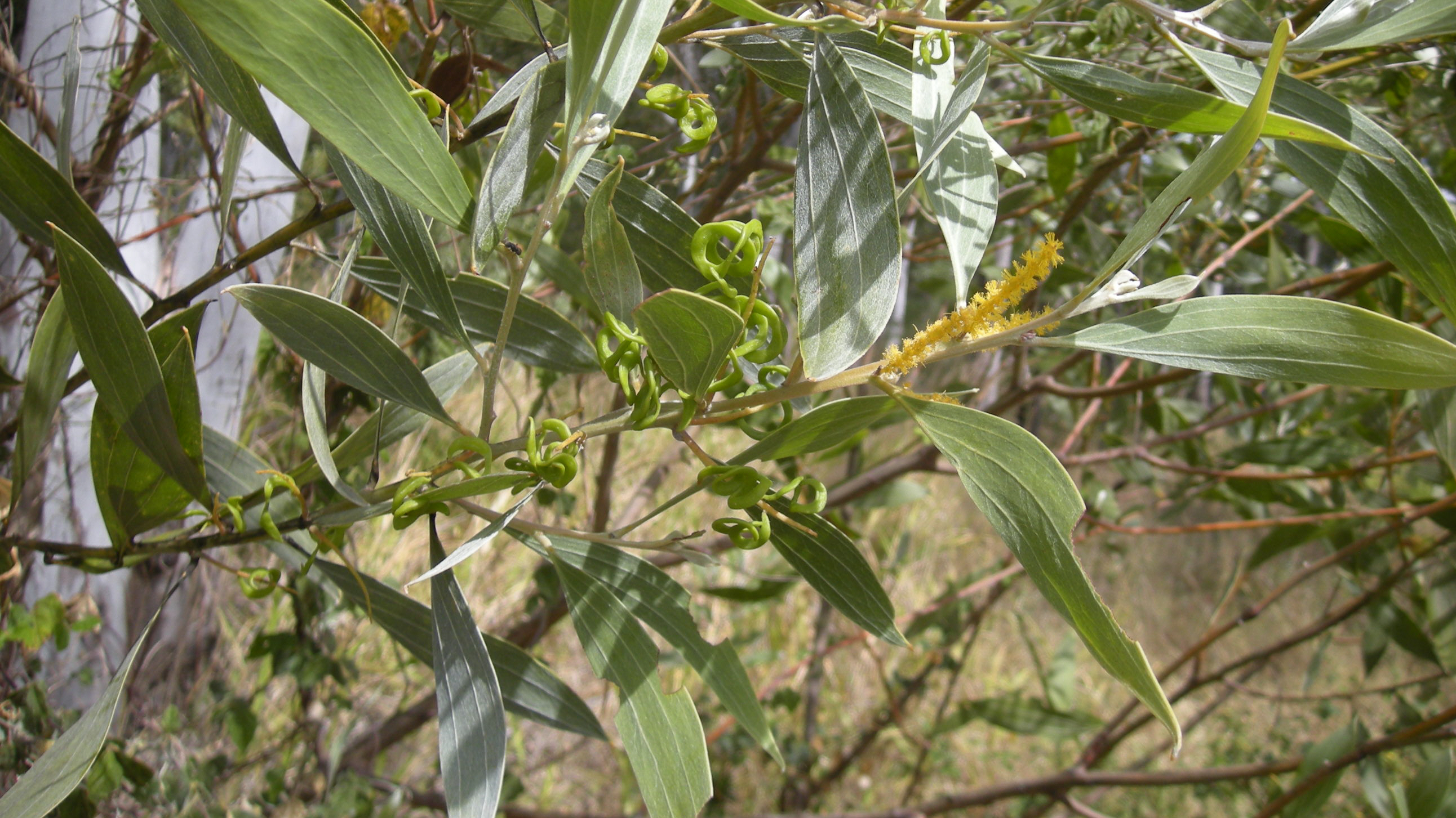 Acacia holosericea flowers, foliage and pods, Mount Archer National Park, Rockhampton